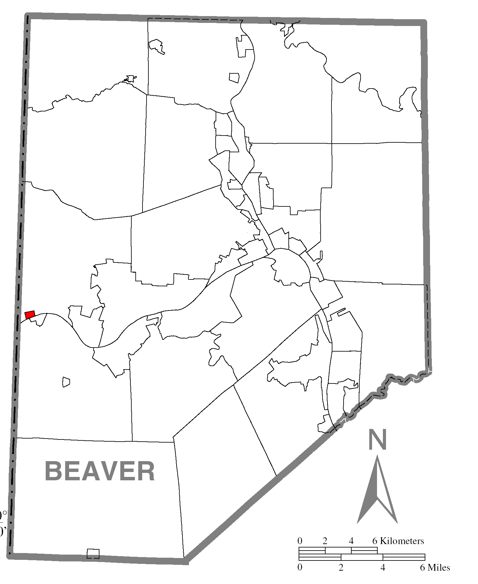 A map of Beaver County showing Glasgow, Pennsylvania (alternate) highlighted on the map.